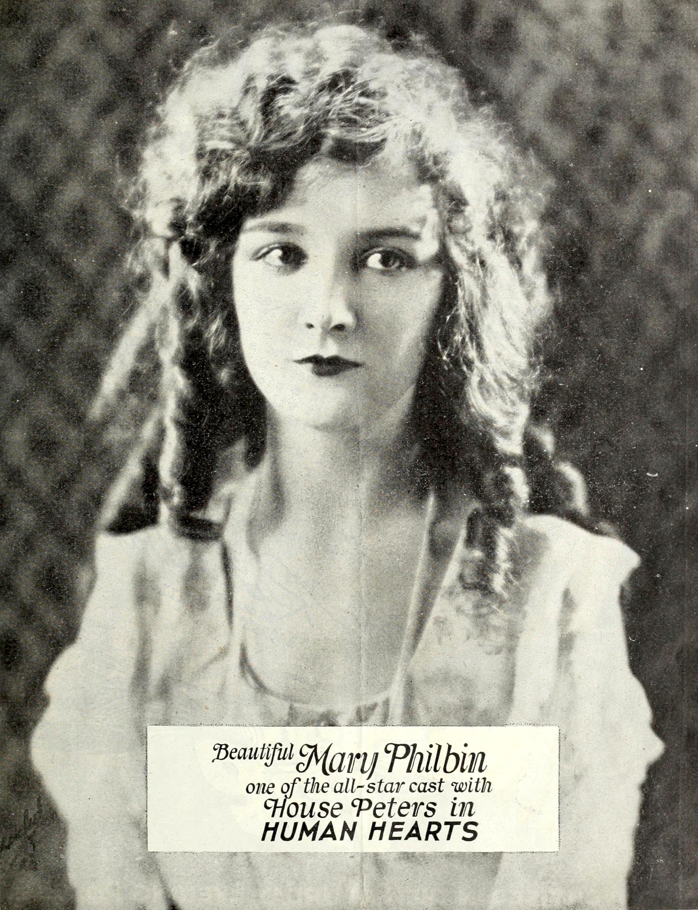 Still for the American film Human Hearts (1922) with Mary Philbin, on page 1 of the August 26, 1922 Universal Weekly.